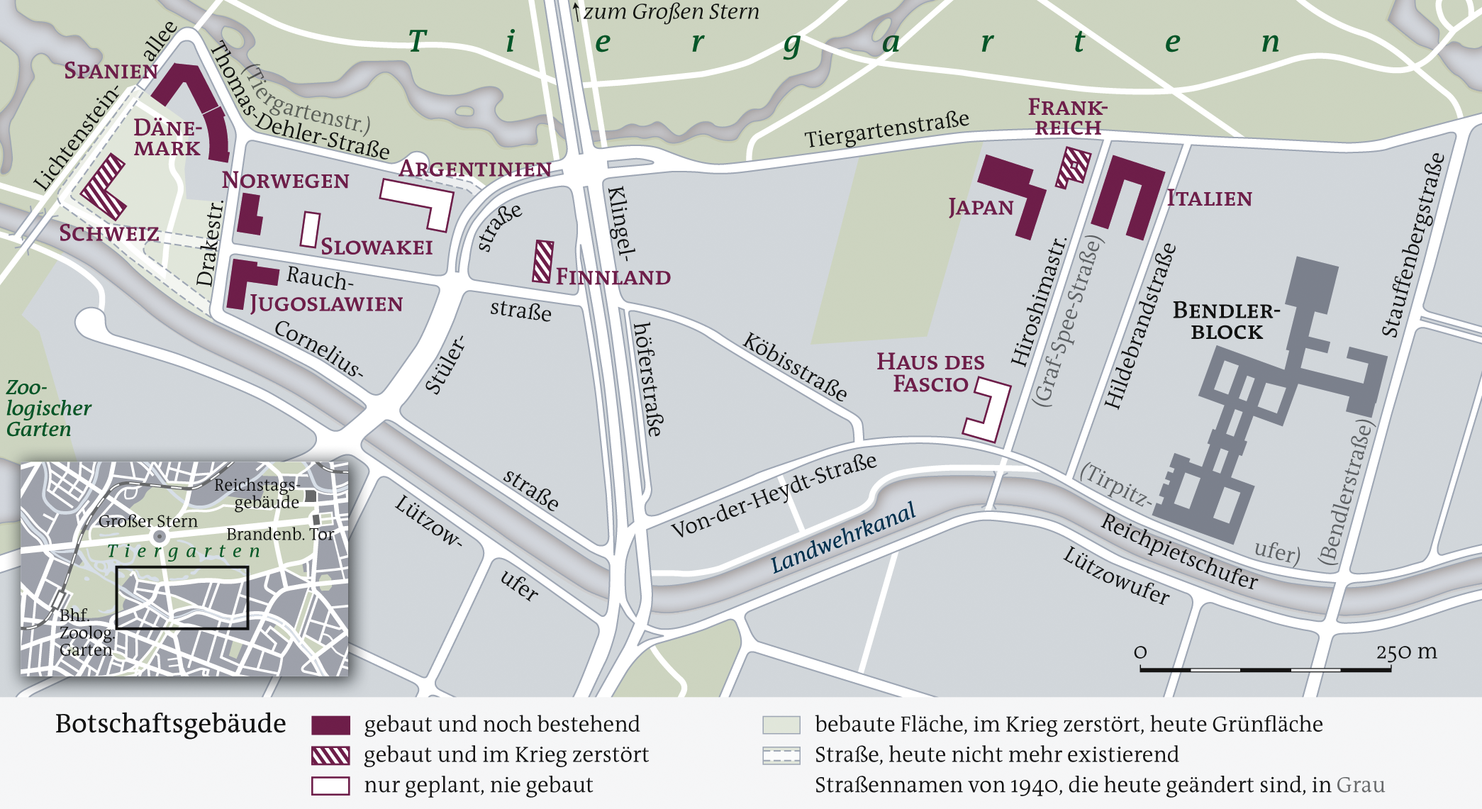 Map of the Botschaftsviertel (embassies quarter) in Berlin as planned in 1938.